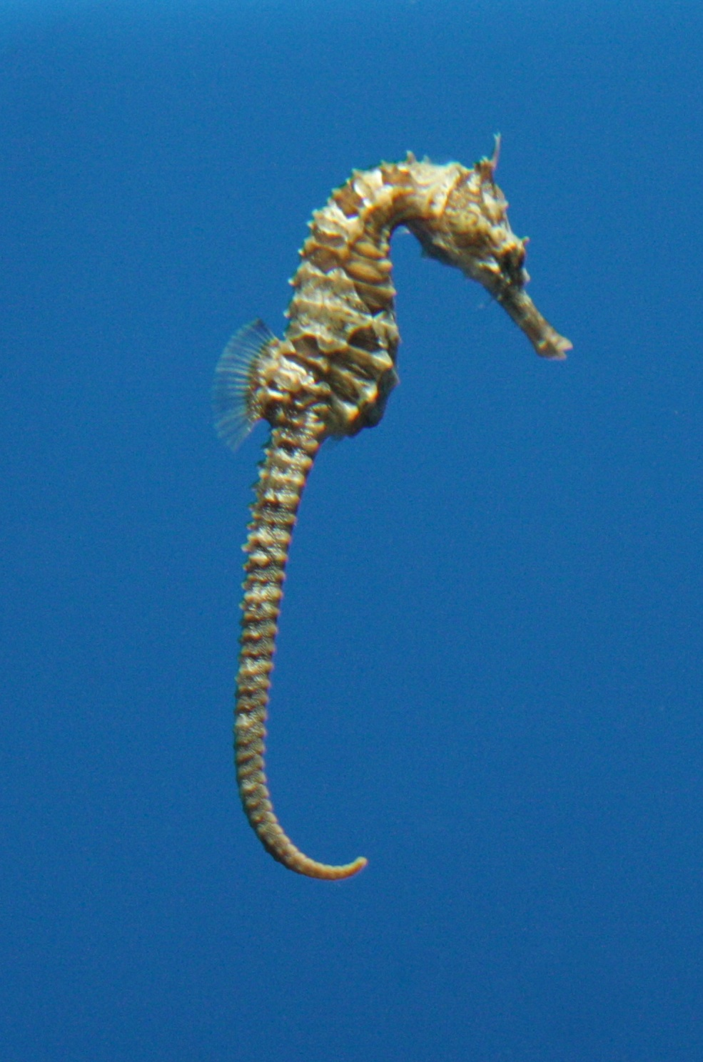 Lined Seahorse (Hippocampus erectus) at the Florida Aquarium.